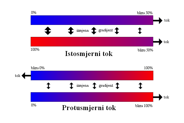 countercurrent flow for the exchange across a gradient of a material property.